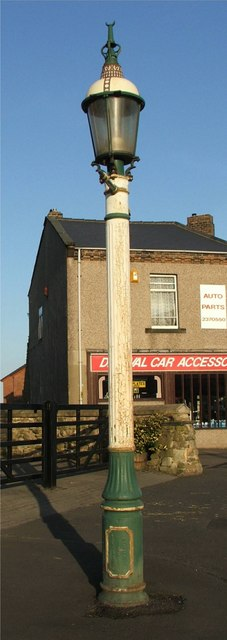 Gas Lamp An plate on the base reads Webbs Patent Sewer Gas Destructor?